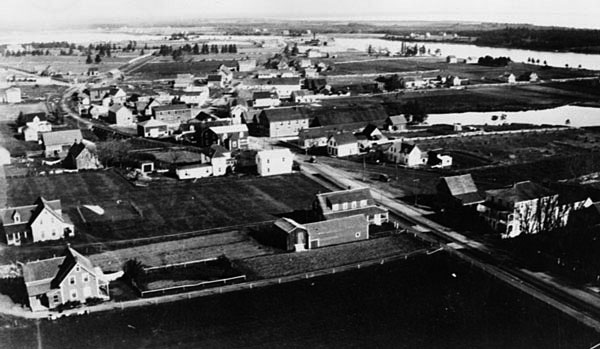 A view of Tracadie, New Brunswick, circa 1930.